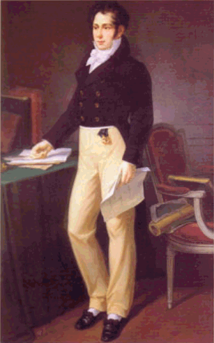 Roch-Ambroise Auguste Bébian, oil painting, pre-1834, oil on canvas by Marie Auguste Chassevent